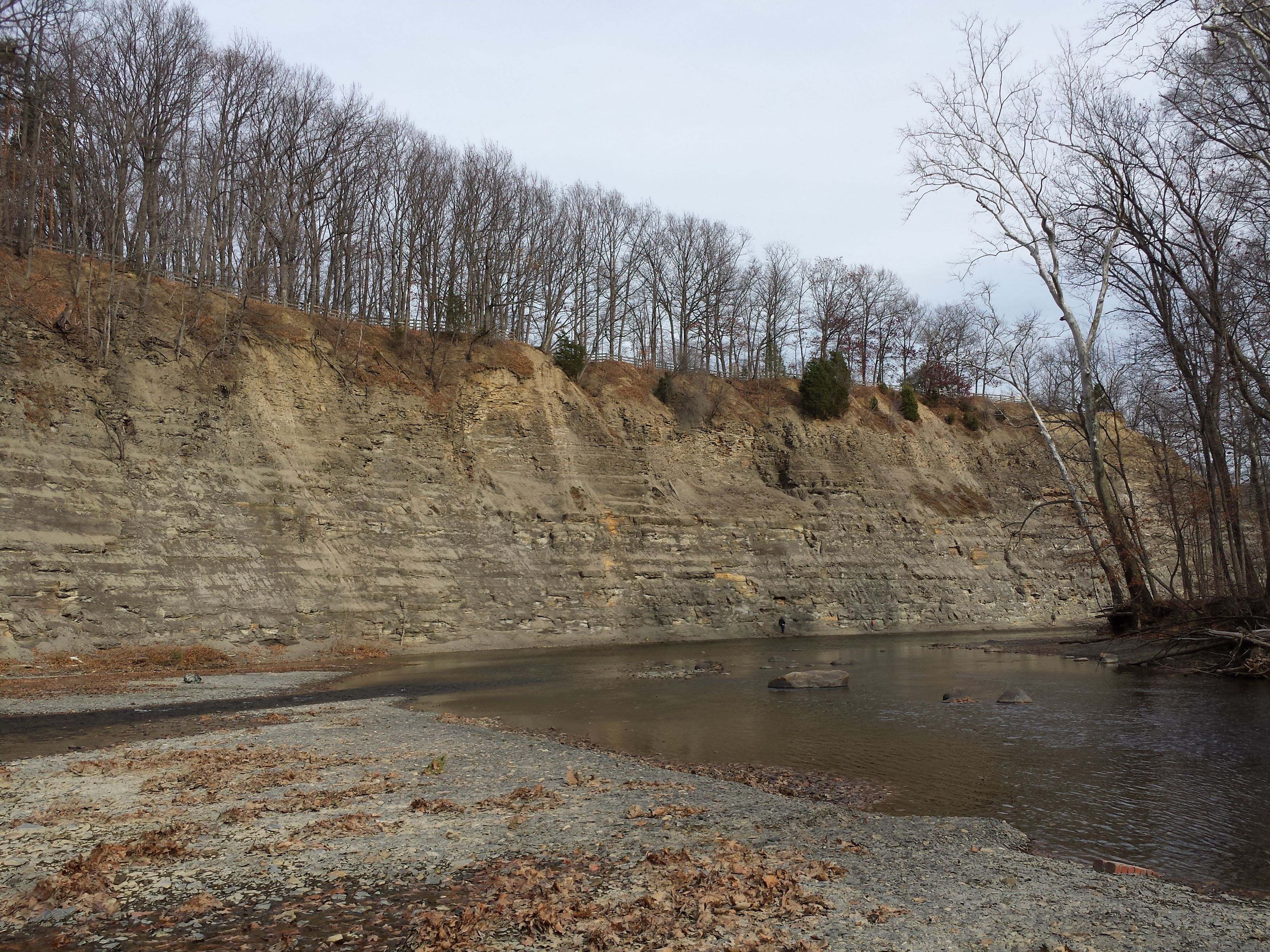 A thick sequence of Cleveland Shale is exposed at Fort Hill near Cedar Point along the north bank of the Rocky River in North Olmstead, Ohio. This exposure is easily viewed from an observation deck at the Rocky River Nature Center. Note the paleontologist prospecting the exposure for fossils near the bottom-center of the exposure in this image for scale. The yellowish tan material at the top of the cliff is glacial till and contains rounded clasts up to boulder size. Fossil collection in the Cleveland Metroparks is by permit only.